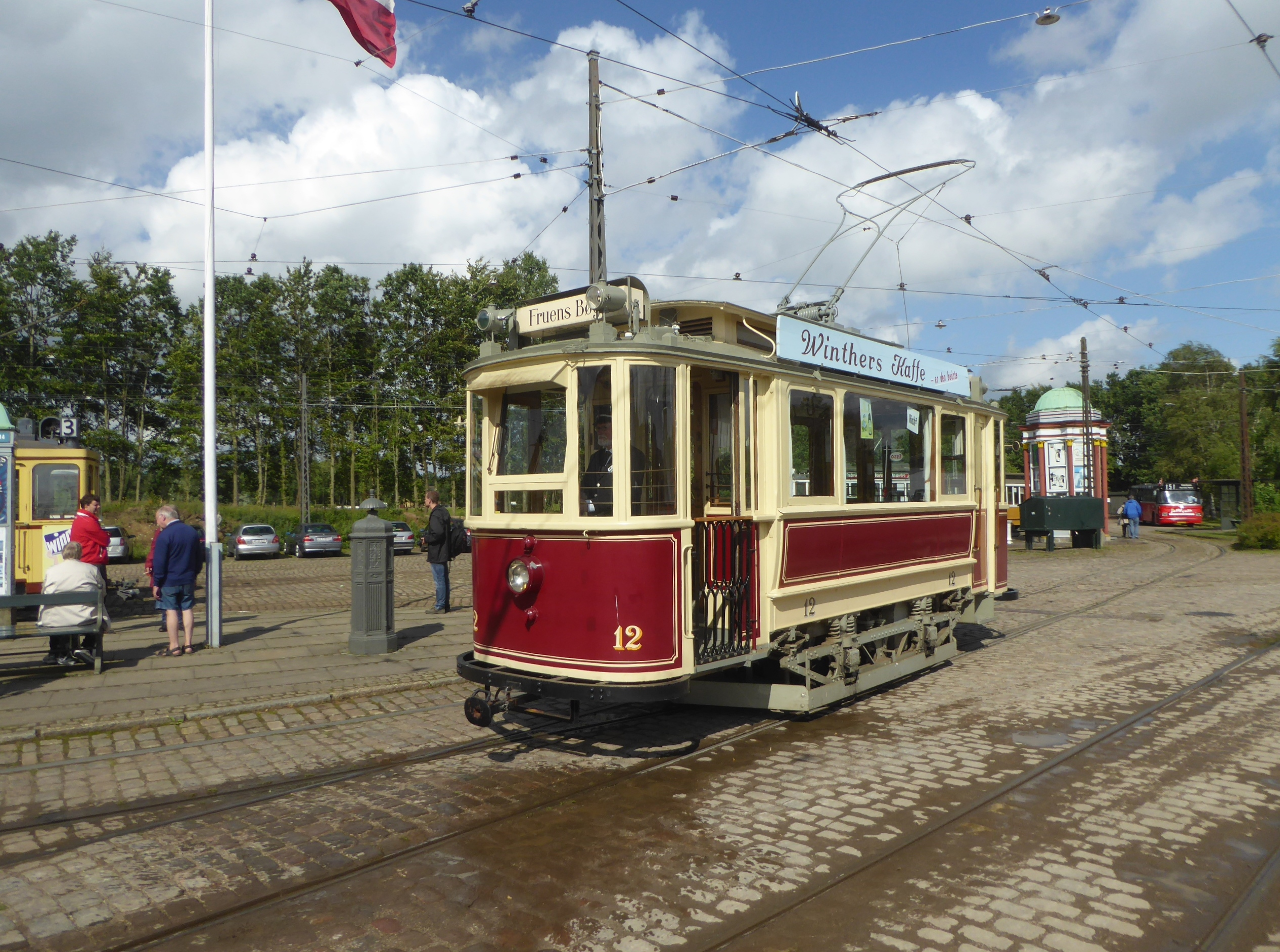 Old tram from Odense, OS 12 build in 1913, at Sporvejsmuseet Skjoldenæsholm in Denmark.